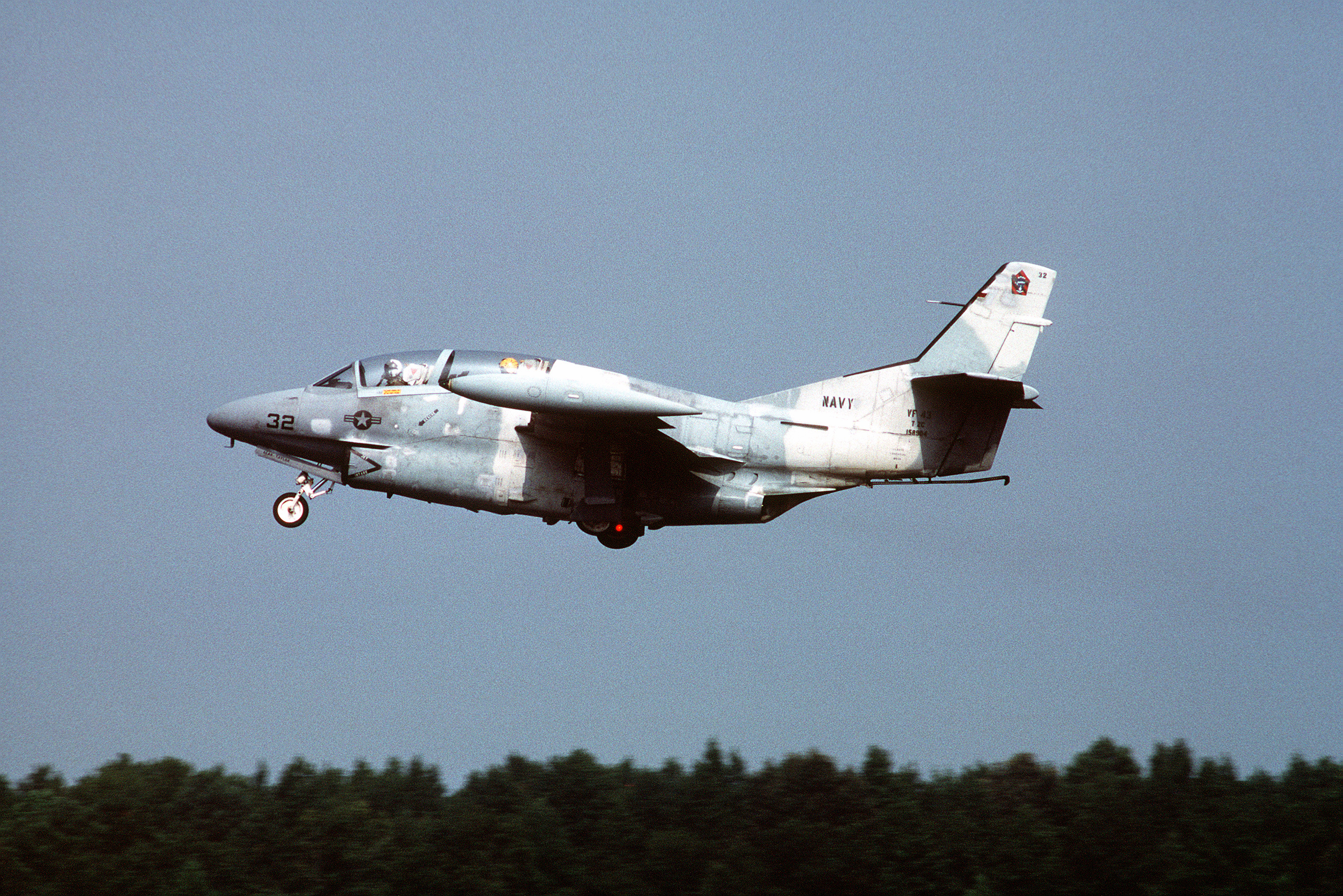 A U.S. Navy Rockwell T-2C Buckeye (BuNo 158904) from fighter squadron VF-43 Challengers taking off from the Naval Air Station Oceana, Virginia (USA), on 1 August 1989. The T-2C 158904 was retired to the AMARC as 2T0227 on 21 September 1993 and later transferred to Greece.